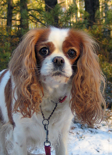 Photograph taken by user Galleytrotter.